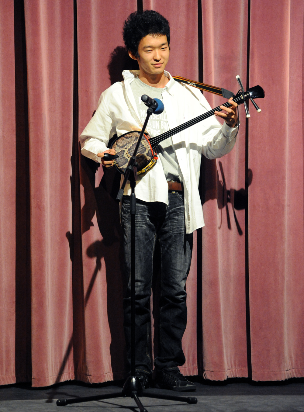 Young Japanese boy playing the Okinawa sanshin, precursor to the shamisen, during the 5th Cross Culture Festival in Warszawa, Poland